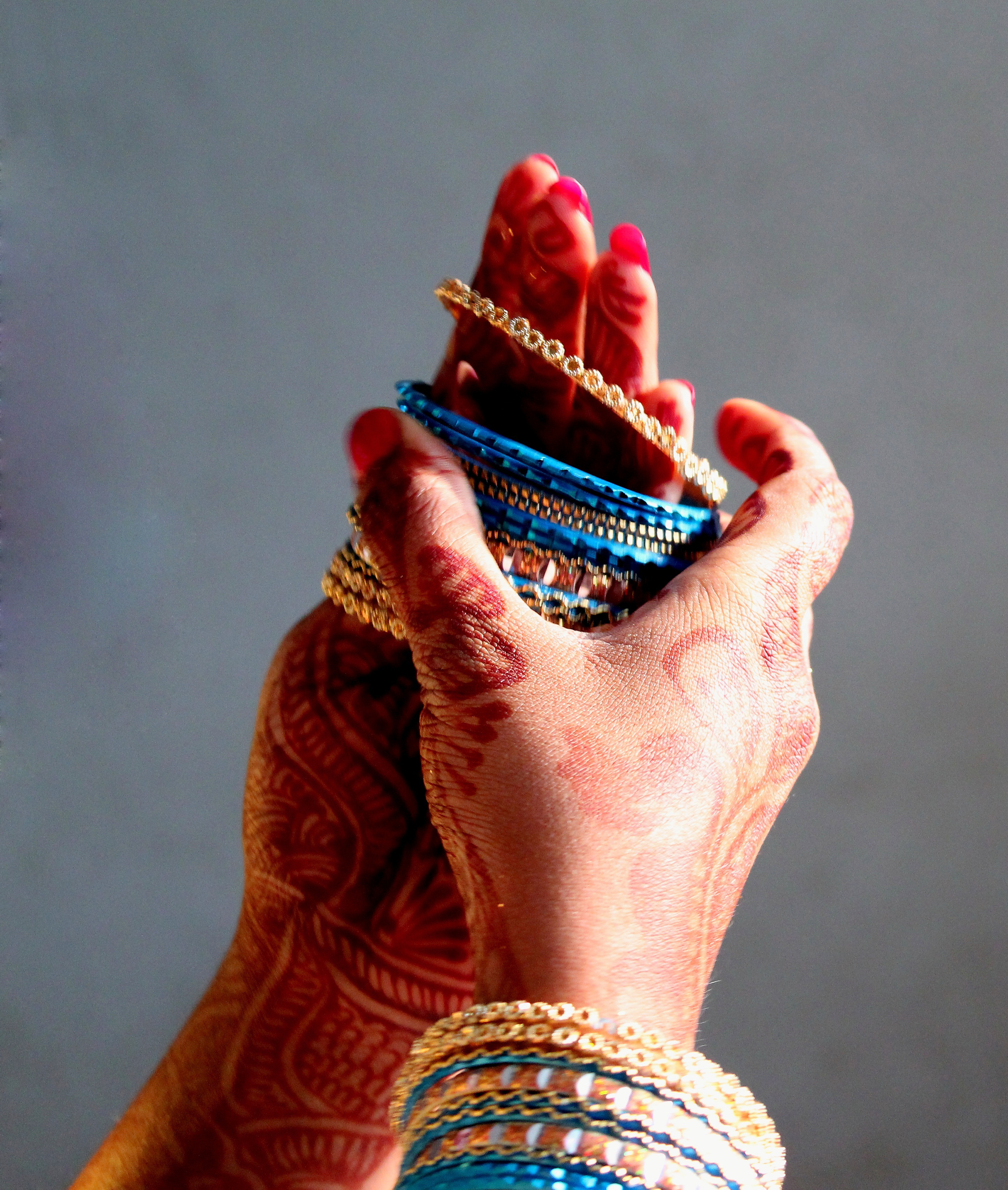 A Tamil Girl' wearing Bangles